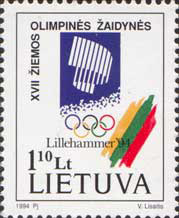 Winter Olympic Games, Lillehammer. Date of issue: 12th February 1994 Designer: V. Lisaitis Paper: coated Printing process: offset Perforation: comb 12 Size: 30 x 37 mm Sheet composition: 50 (5 x 10) stamps Printing run: 500.000 Michel catalogue number: 547 1,10 Litas. Multicoloured. Games emblem and national team coloures.